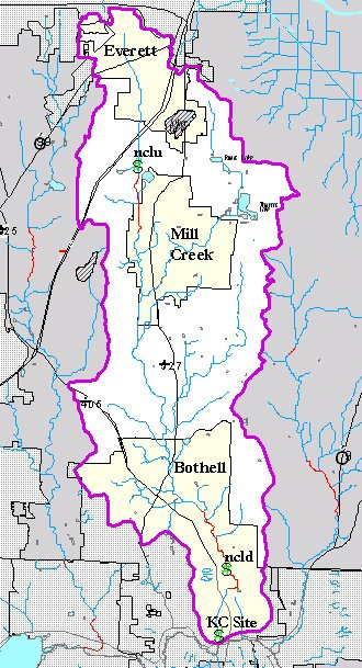 Northcreekmap-overview